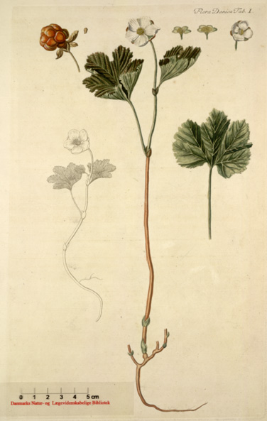 Copperplate of Rubus chamaemorus from Flora Danica